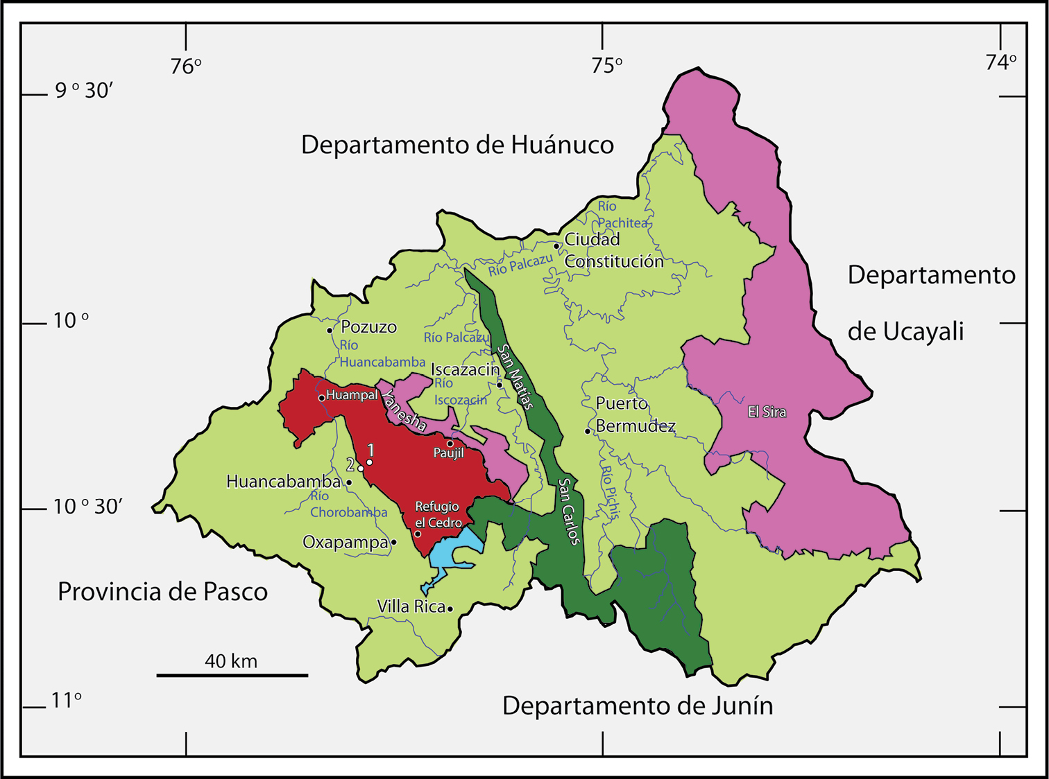 The Yanachaga-Chemillén National Park (in red) with three field stations: Refugio el Cedro at 2400 m, Huampal at 1000 m, and Paujil at 460 m. Other protected areas in the Central Selva region: in pink, Communal Reserves (Yanesha, El Sira); in dark, green Protected Forest (San Matías-San Carlos); and in blue, Municipal Conservation Area (Bosque de Sho’llet). Unprotected Provincial Area is shown in pale green. Collecting sites: 1, Quebrada Yanachaga (2900–3000 m); 2, Huancabamba park entrance (2290–2350 m). Designed by E. Lehr using a template from The Nature Conservancy (2007).